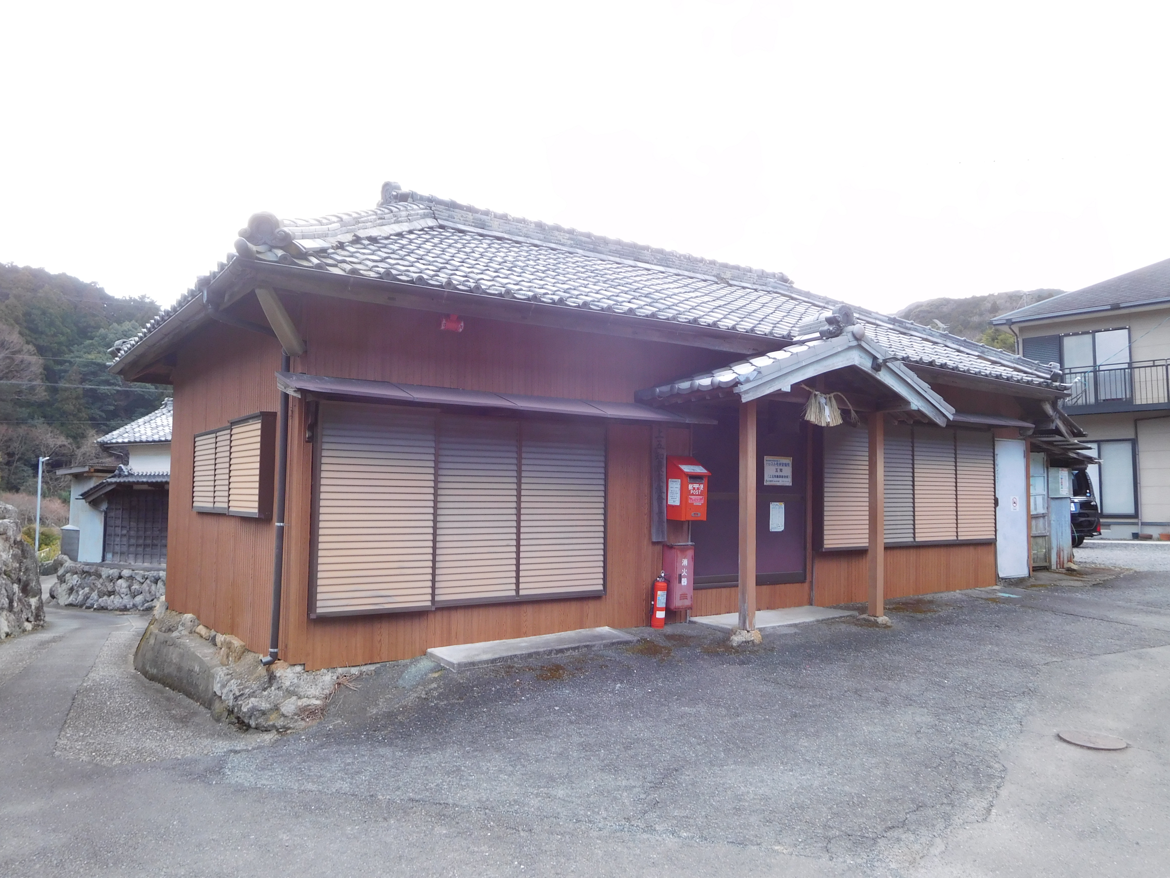 It is Kamigochi Famers’ Assosiation in Shima, mie, Japan.